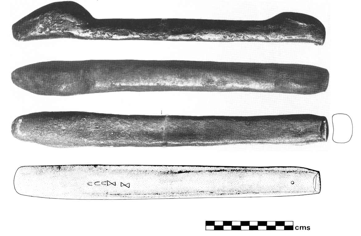 Snarling iron of the Harappa period, phot.